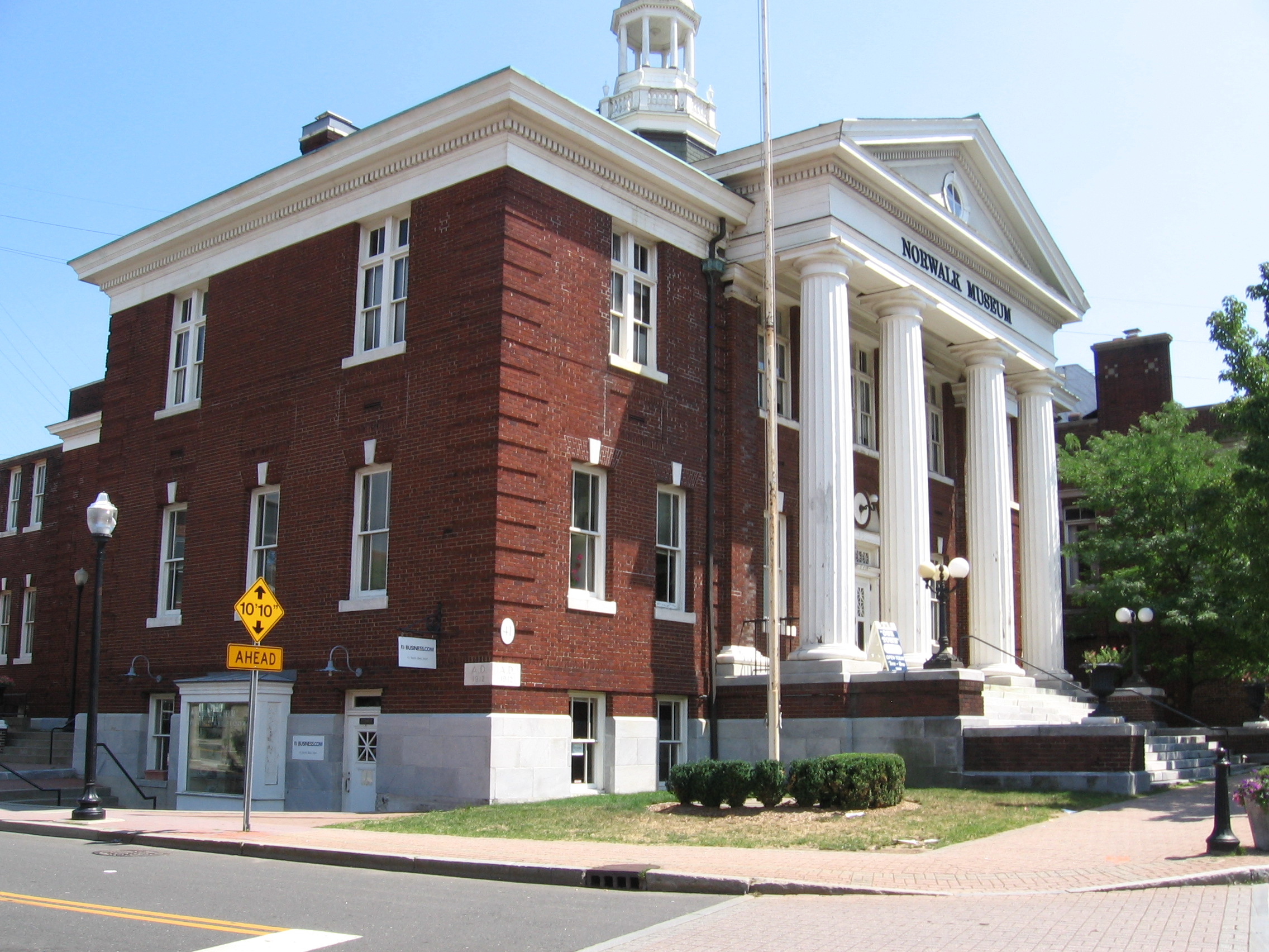 Norwalk Museum, the former City Hall in the South Norwalk section of Norwalk, Connecticut